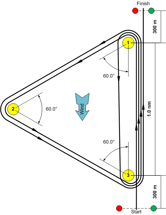 Windglider Course Map of the 1984 Olympic Games